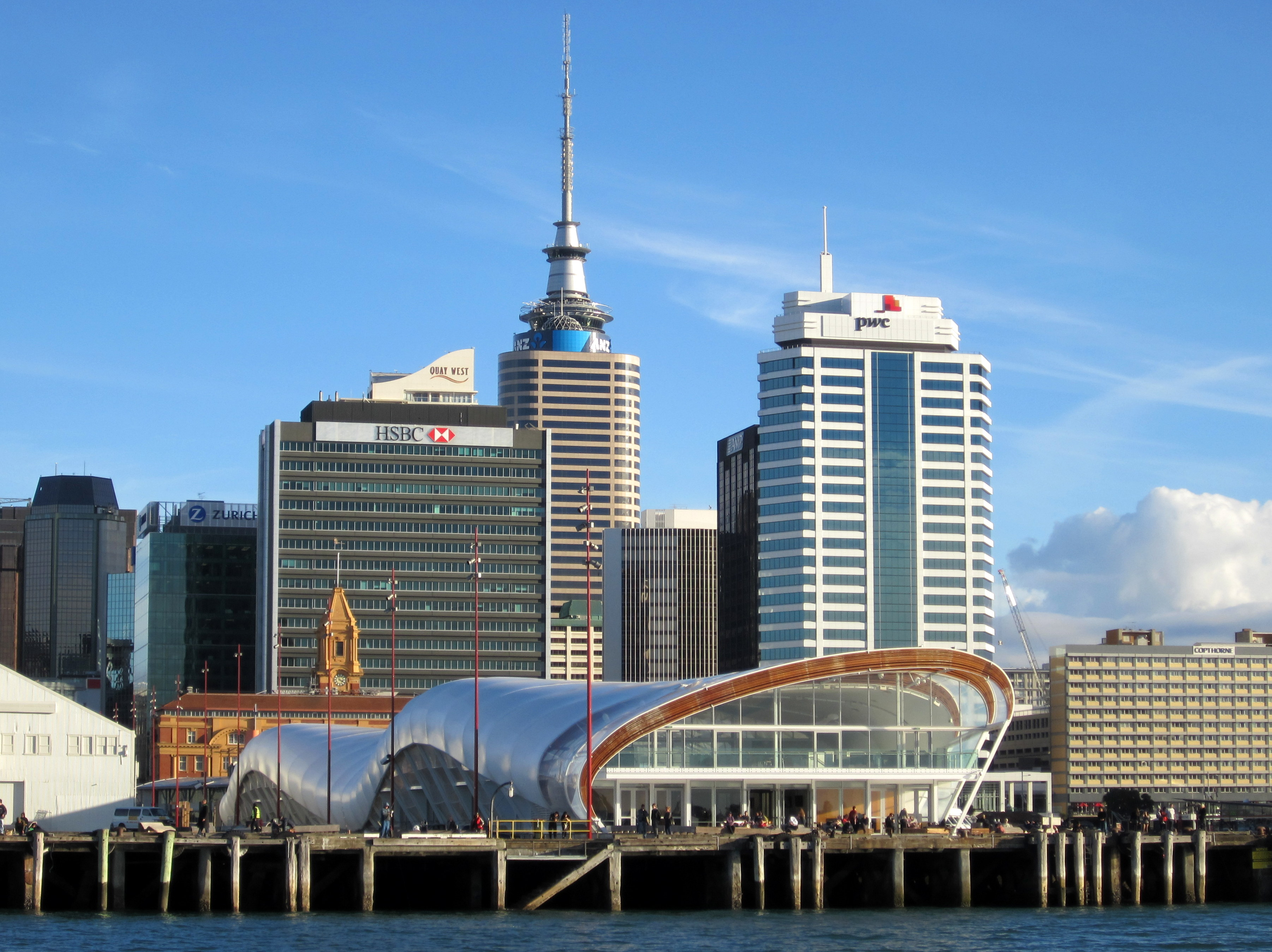 The eastern side of The Cloud and Auckland CBD viewed from the Devonport ferry